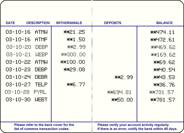 Passbook sample for a fictional bank. It contains the same transactions as the sample bank statement.